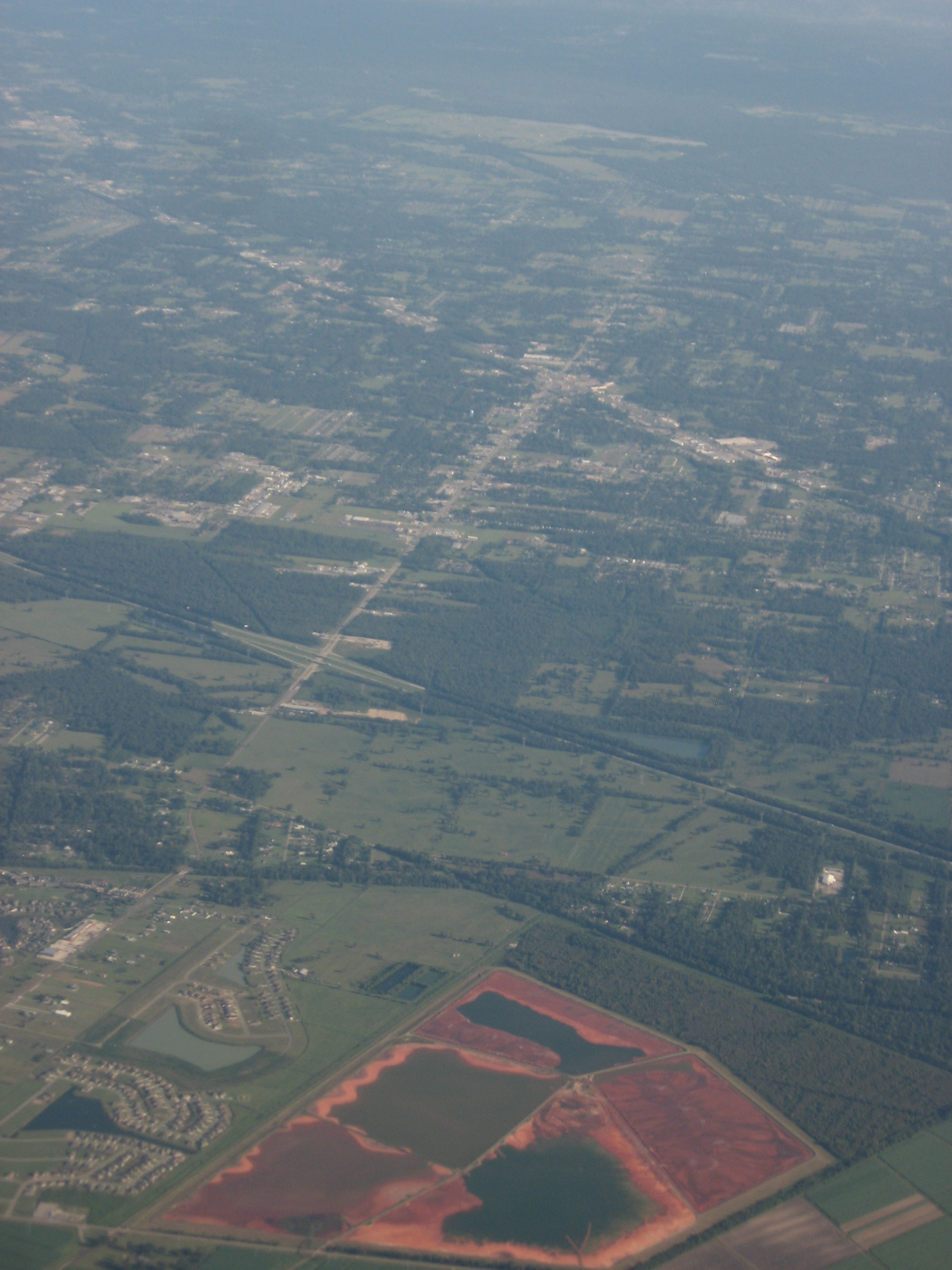 Gonzales is a city in Ascension Parish, Louisiana, United States. As of the 2010 census, it had a population of 9,781. Known as the "Jambalaya Capital of the World", it is famous for its annual Jambalaya Festival, which was first held in 1968.